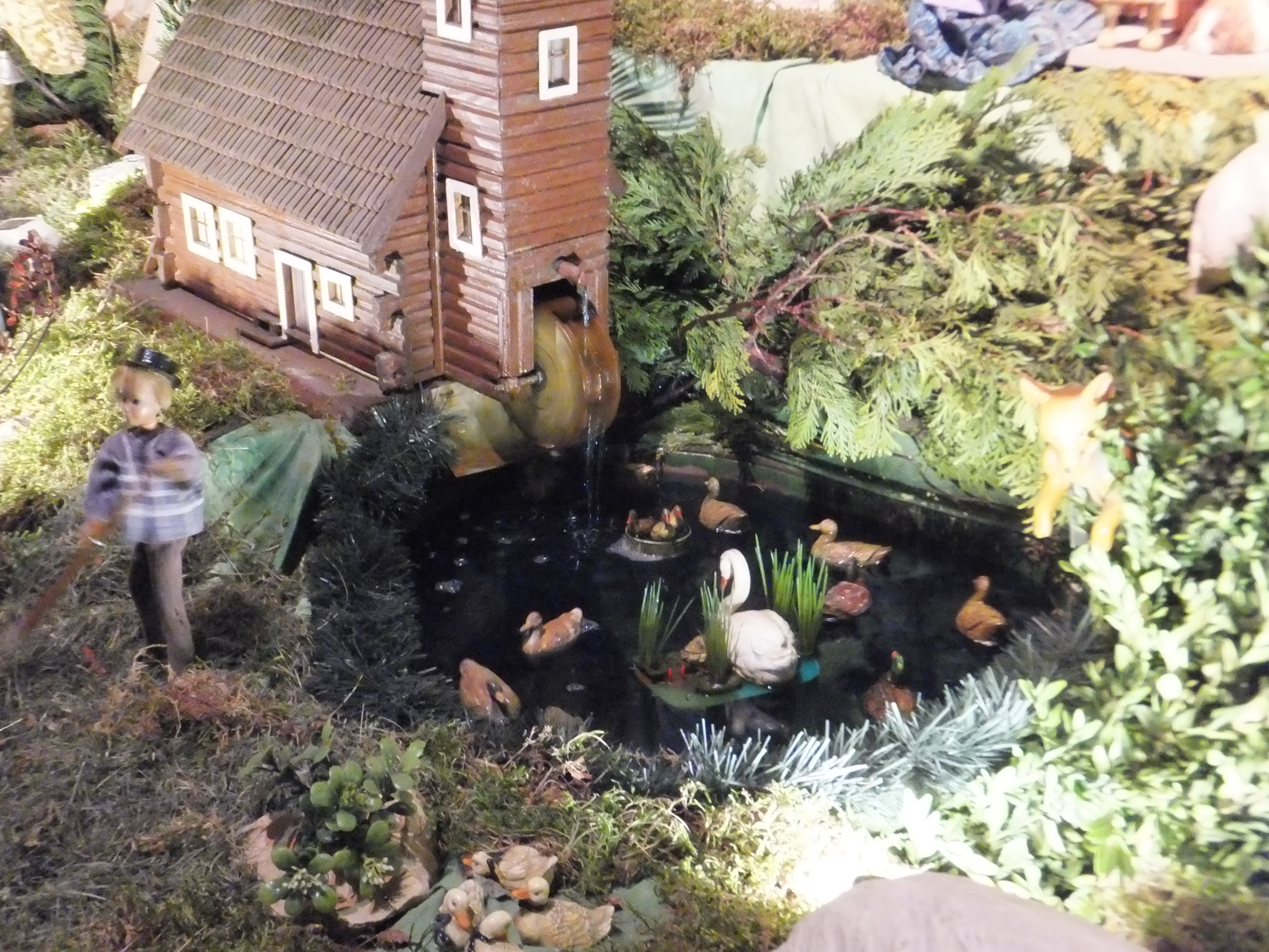 Moving crib in Saint Bartholomew church in Bieruń (Poland). Moving crib is built every year since 1955. It consists of more than 100 figures (most of the figures moving).